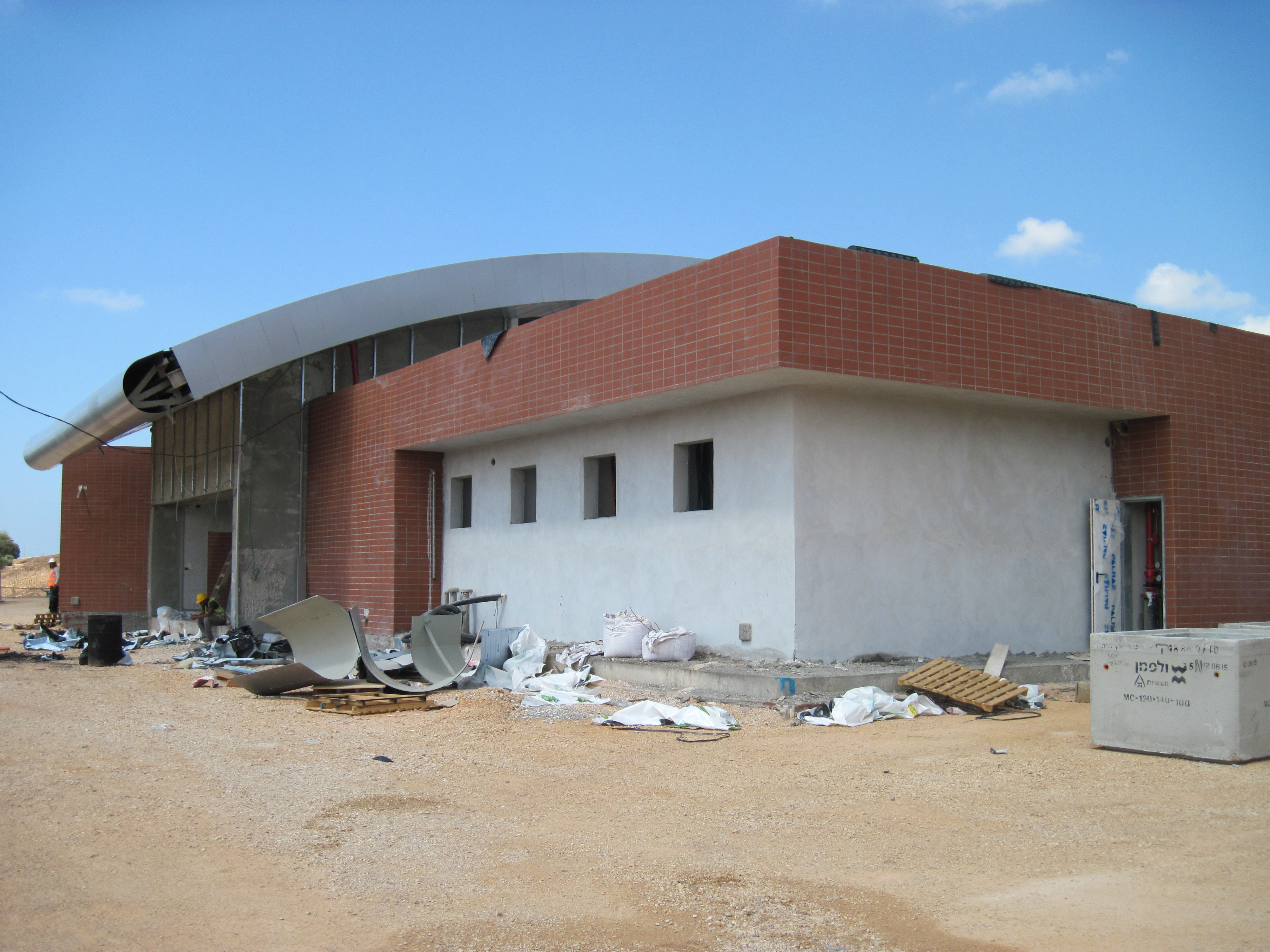 Achihud train station, 2015